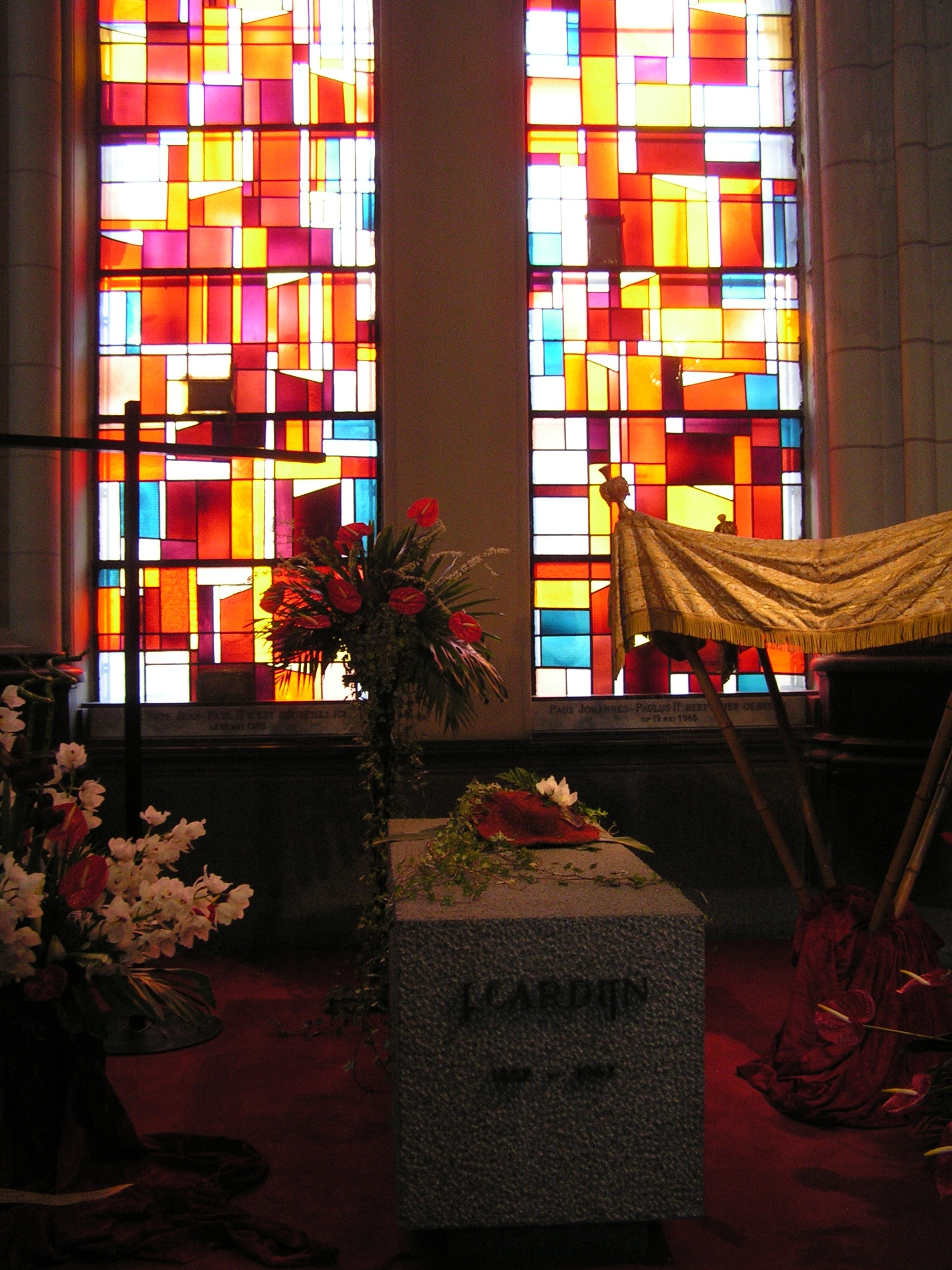 Tomb of Joseph Cardijn, Onze-Lieve-Vrouw van Laken, Brussels, Belgium.